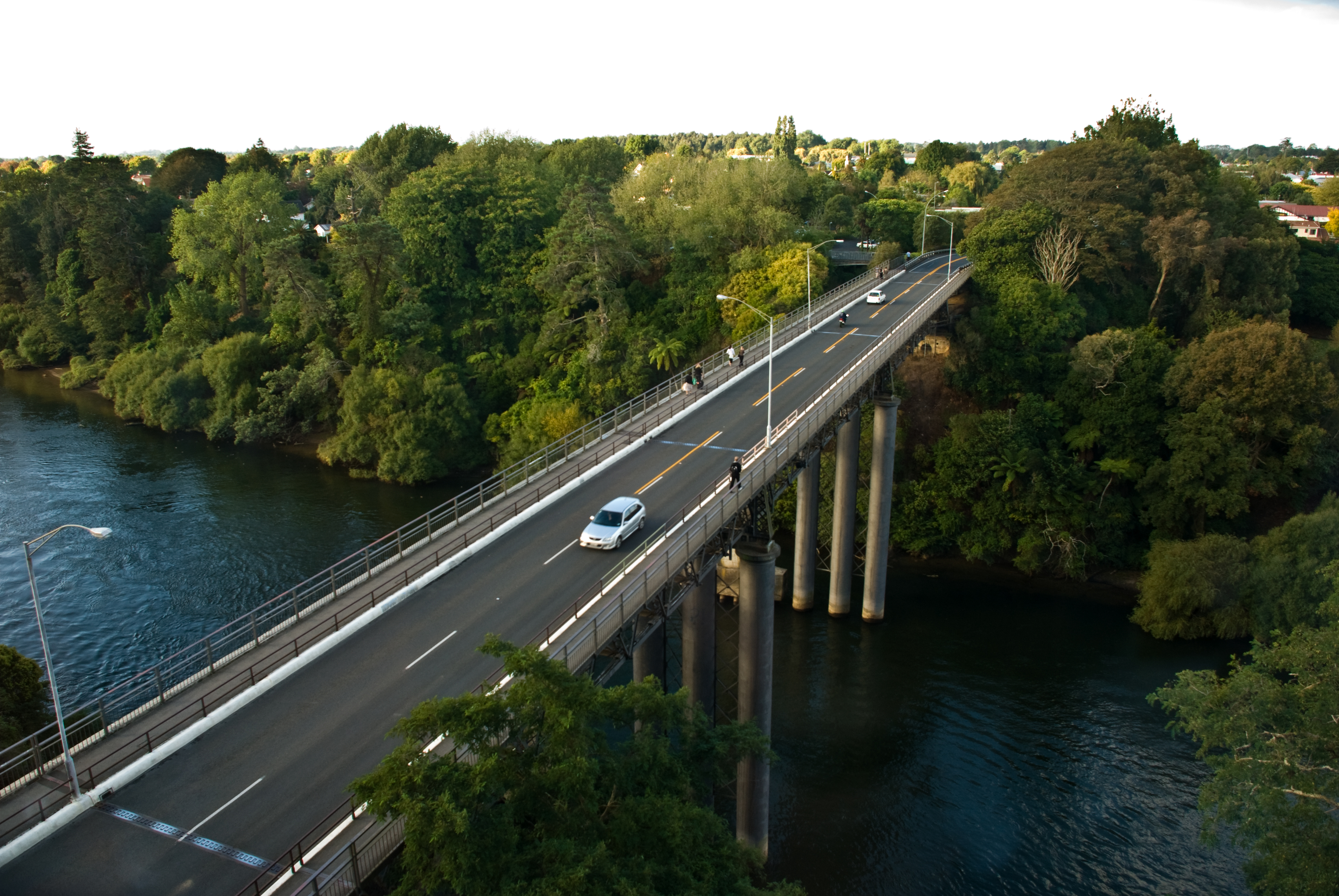 The Claudlands Bridge in Hamilton, Waikato on 3 April 2008.